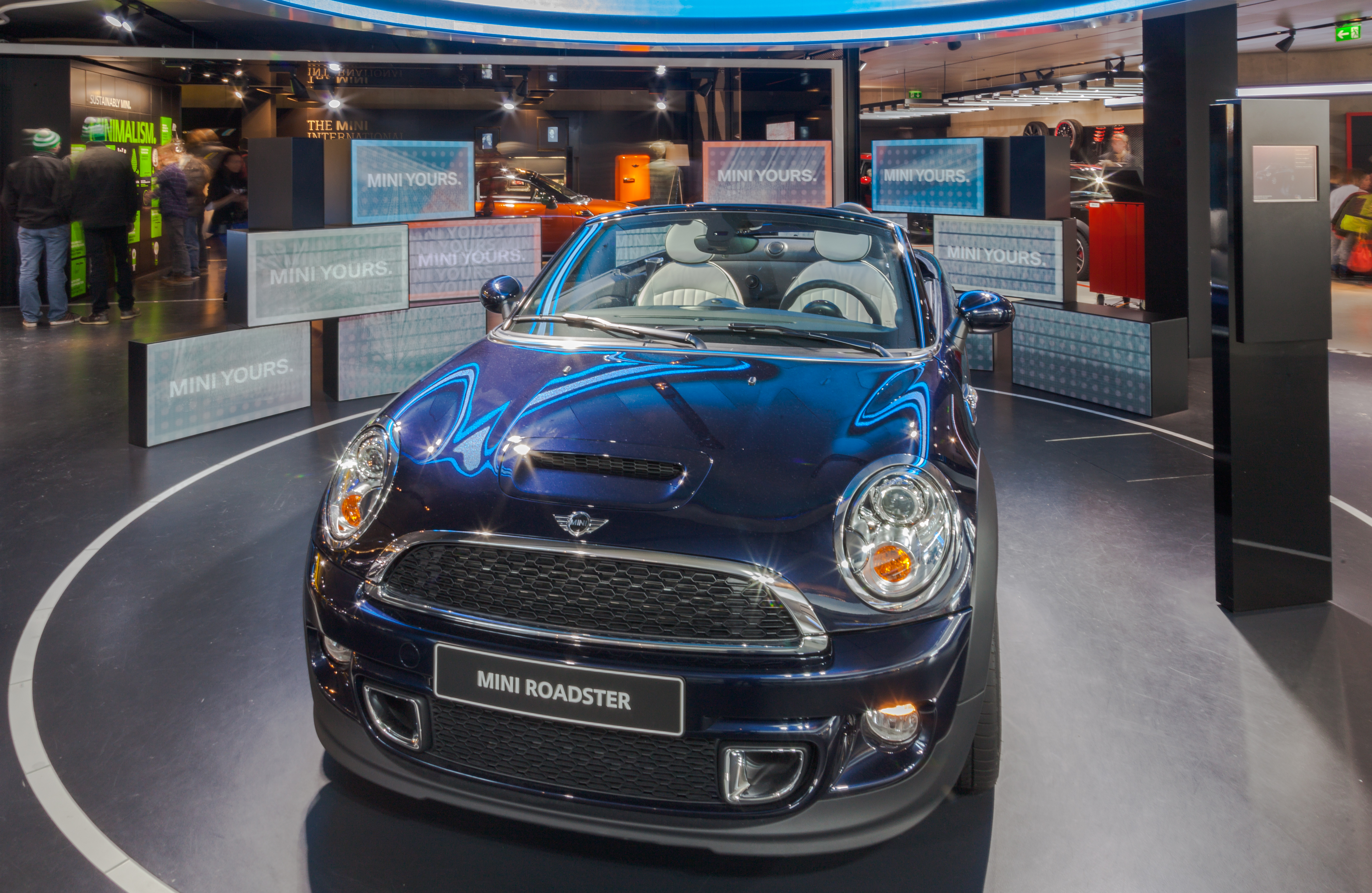 BMW Welt, Munich, Germany